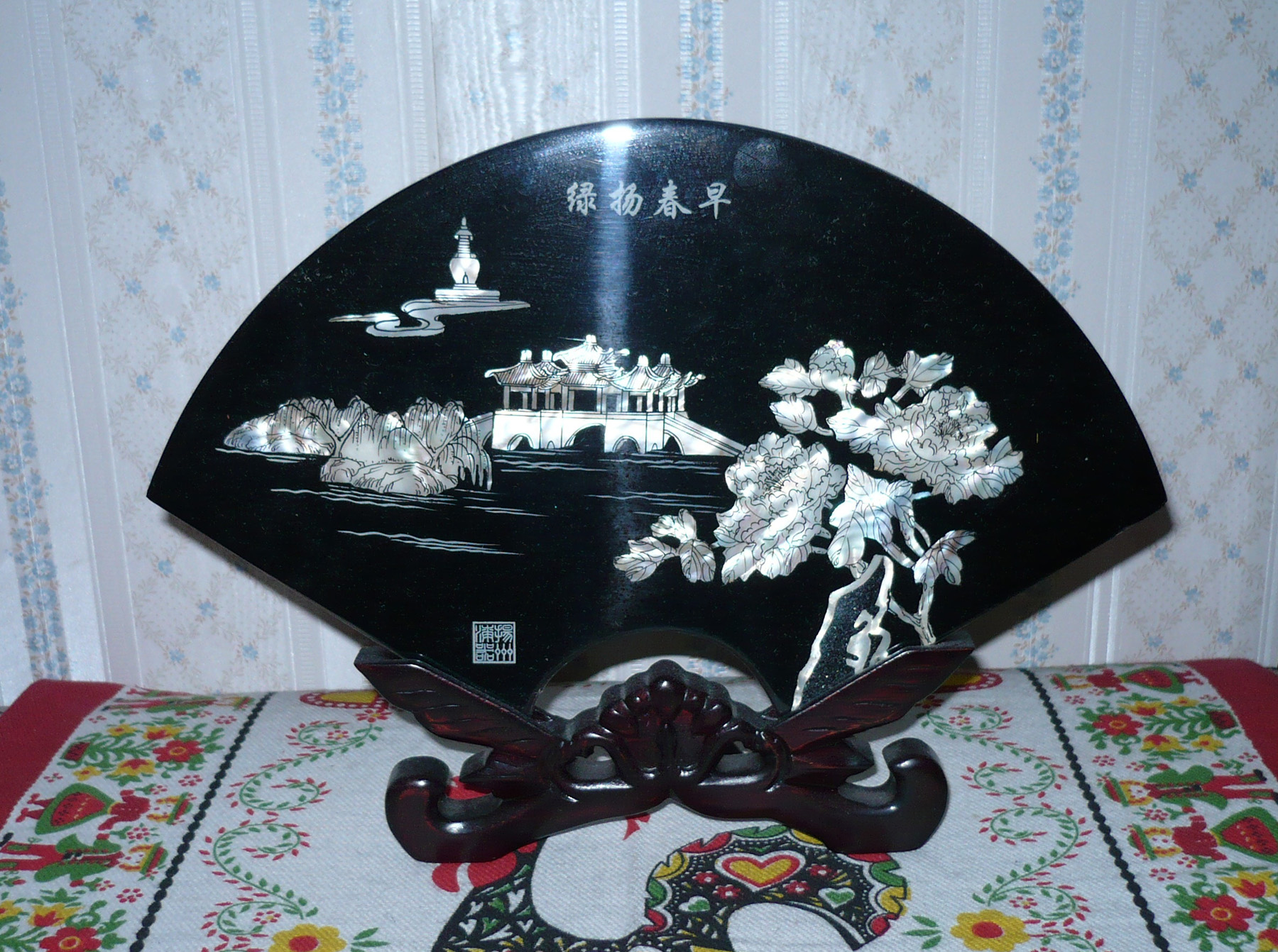 Yangzhou shell lacquer